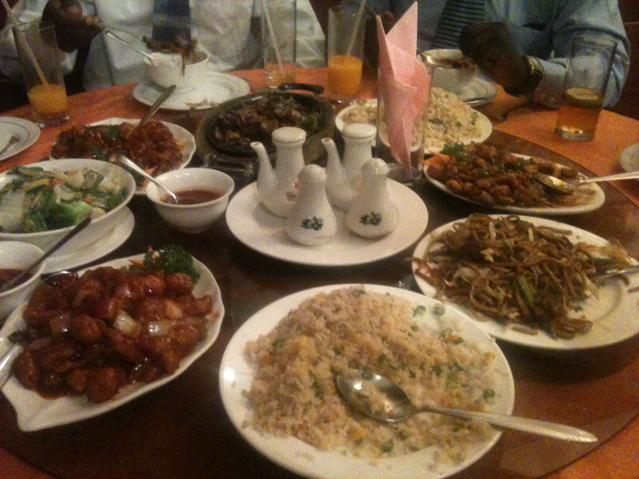 This is an image of food from Kenya